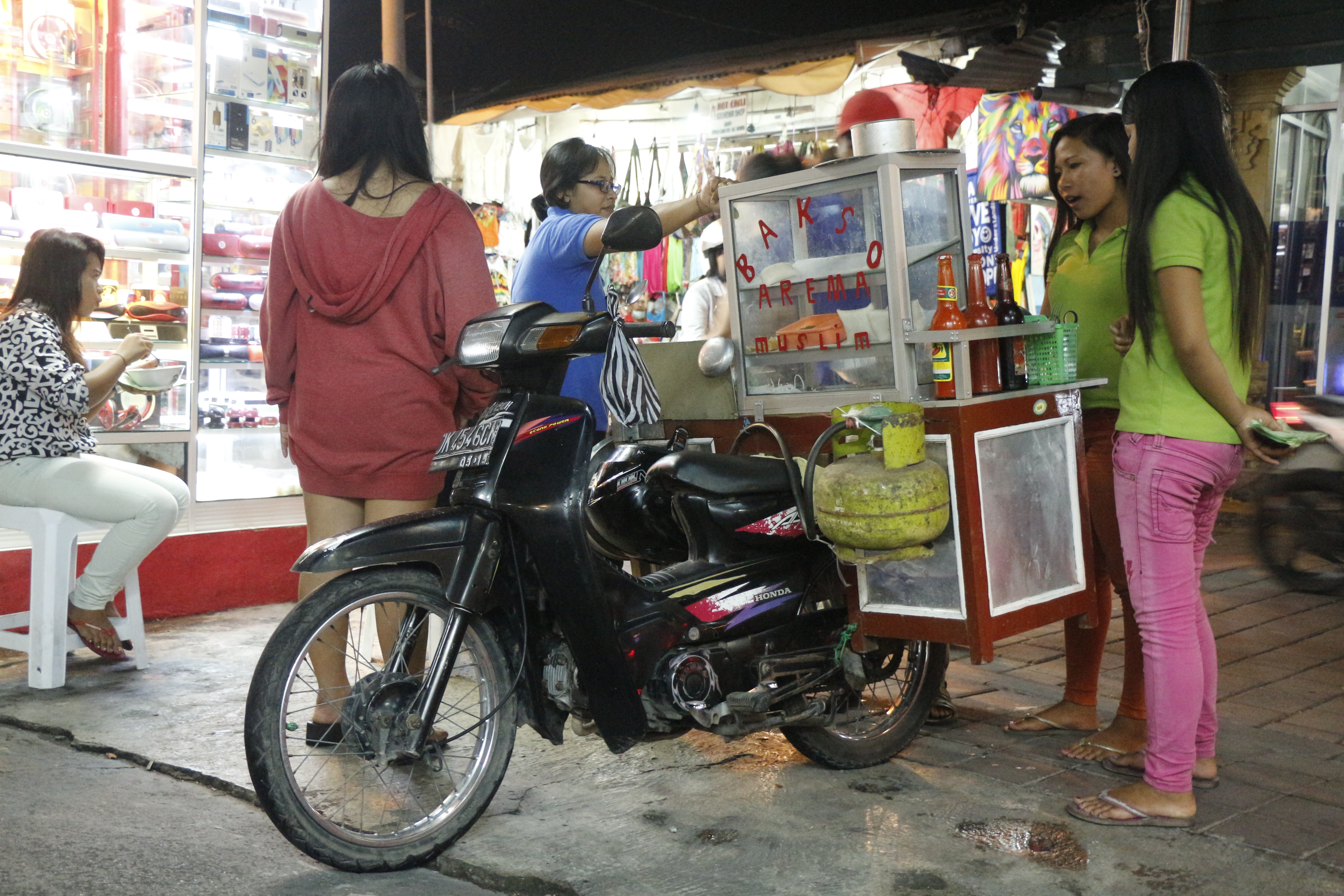 Motorized Warung for Soto Bakso (meat ball soup) in Kuta/Bali